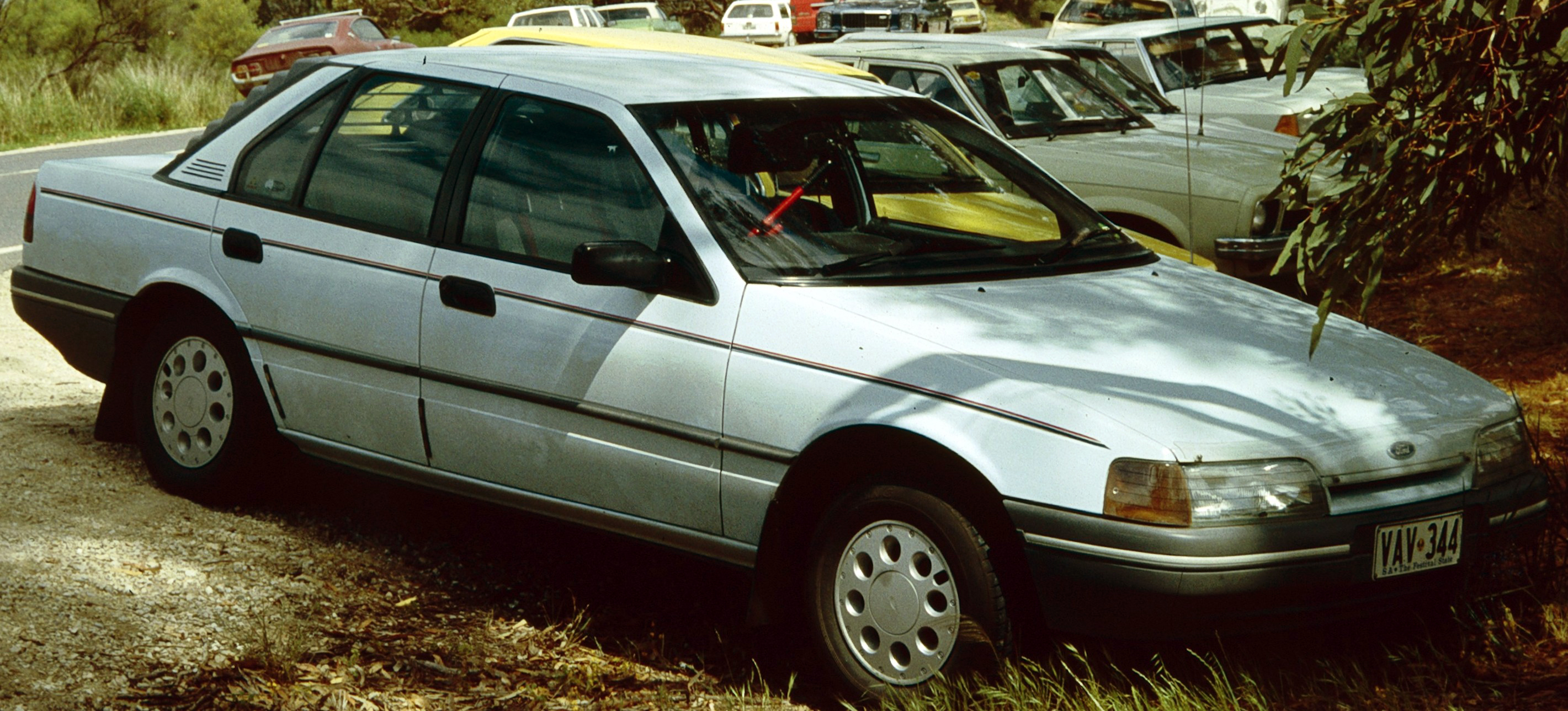 1988–1989 Ford Falcon (EA) GL sedan, photographed in South Australia, Australia.